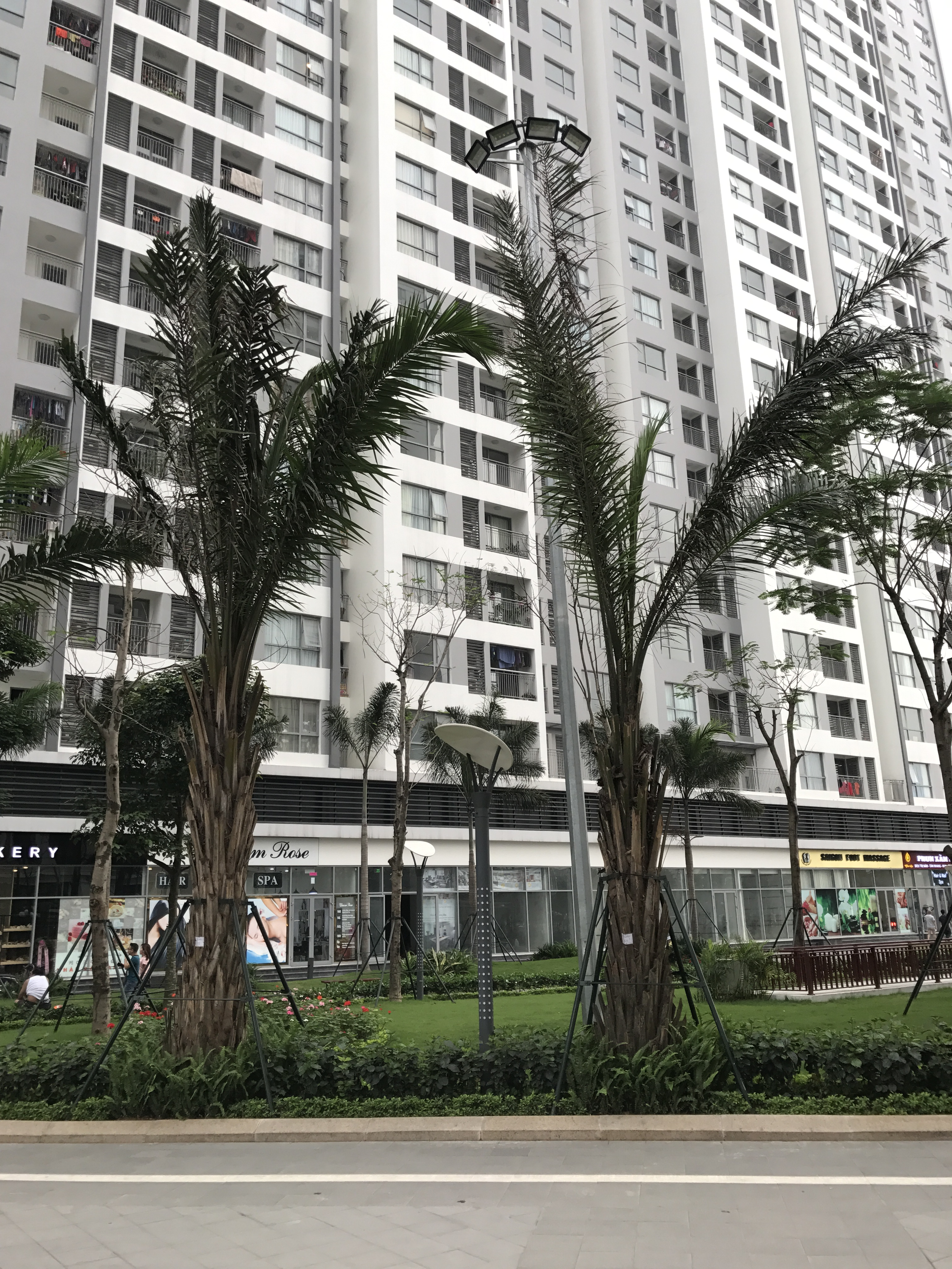 Elaeis guineensis at Vinhomes Times City Park Hill